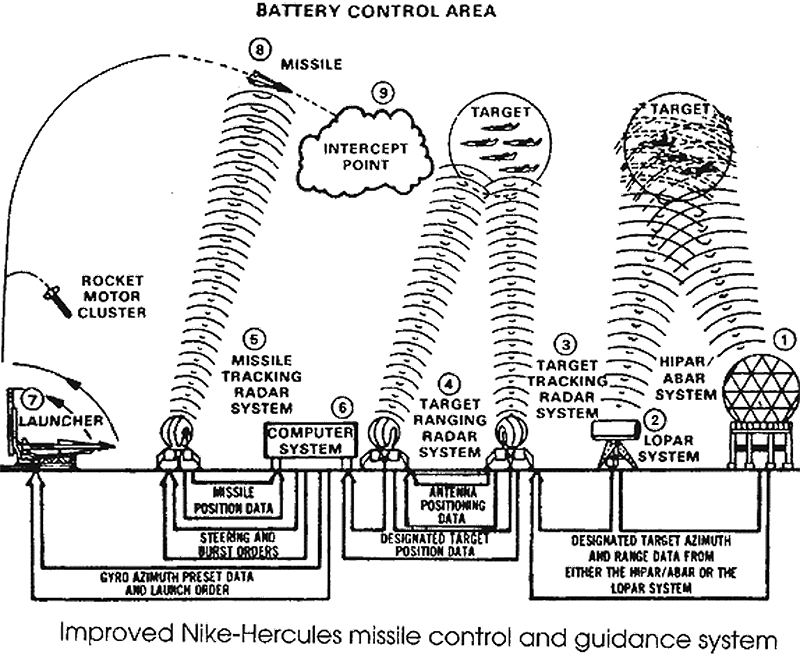 Nike Hercules operating overview.